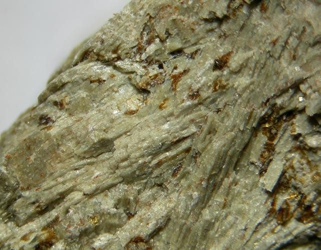 Aliettite Locality: Ingichka Mine (Ingichke Mine), Zirabulak Mts (Zirabulakskie Mts), Samarkand (Samarqand) Viloyati, Uzbekistan Greenish-grey massive Aliettite. Field of view 7 mm. Specimen and photo Leon Hupperichs.